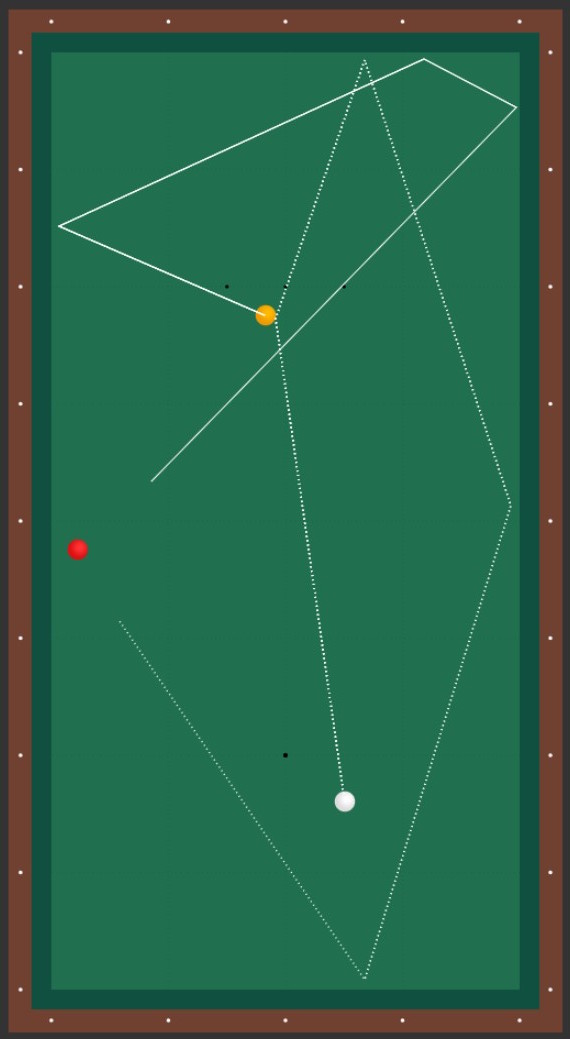 see file name